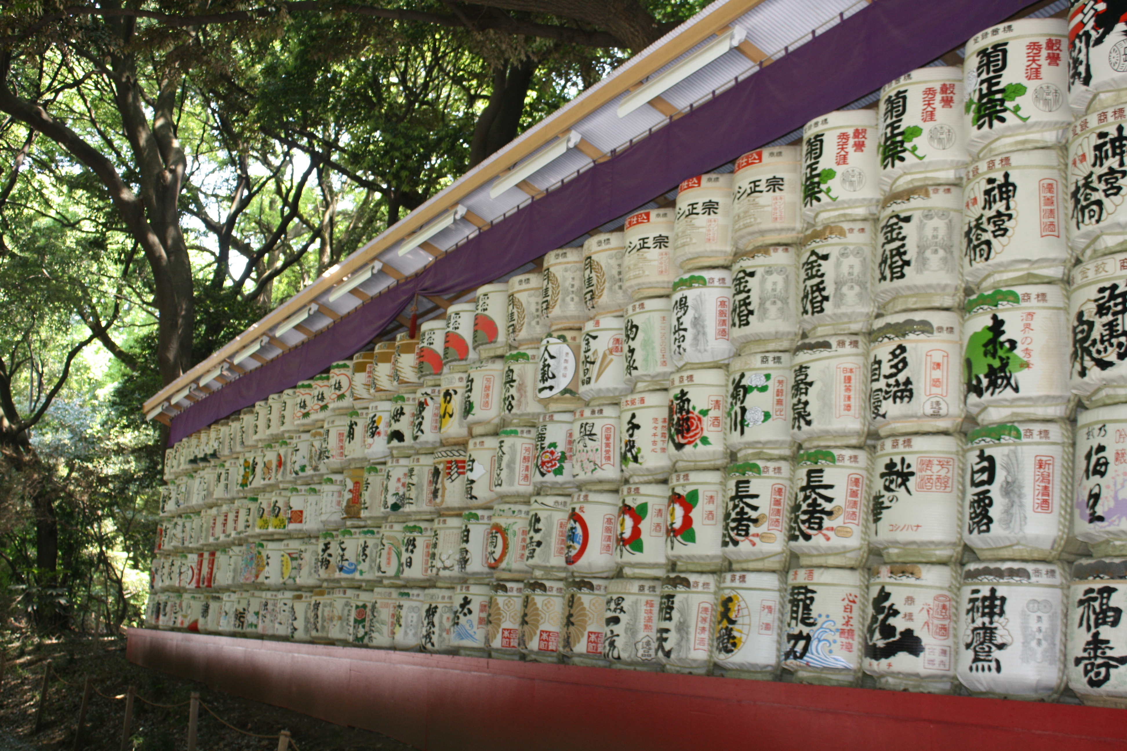 Sake Barrel Offerings at Meiji Shrine, Tokyo, Japan, rows